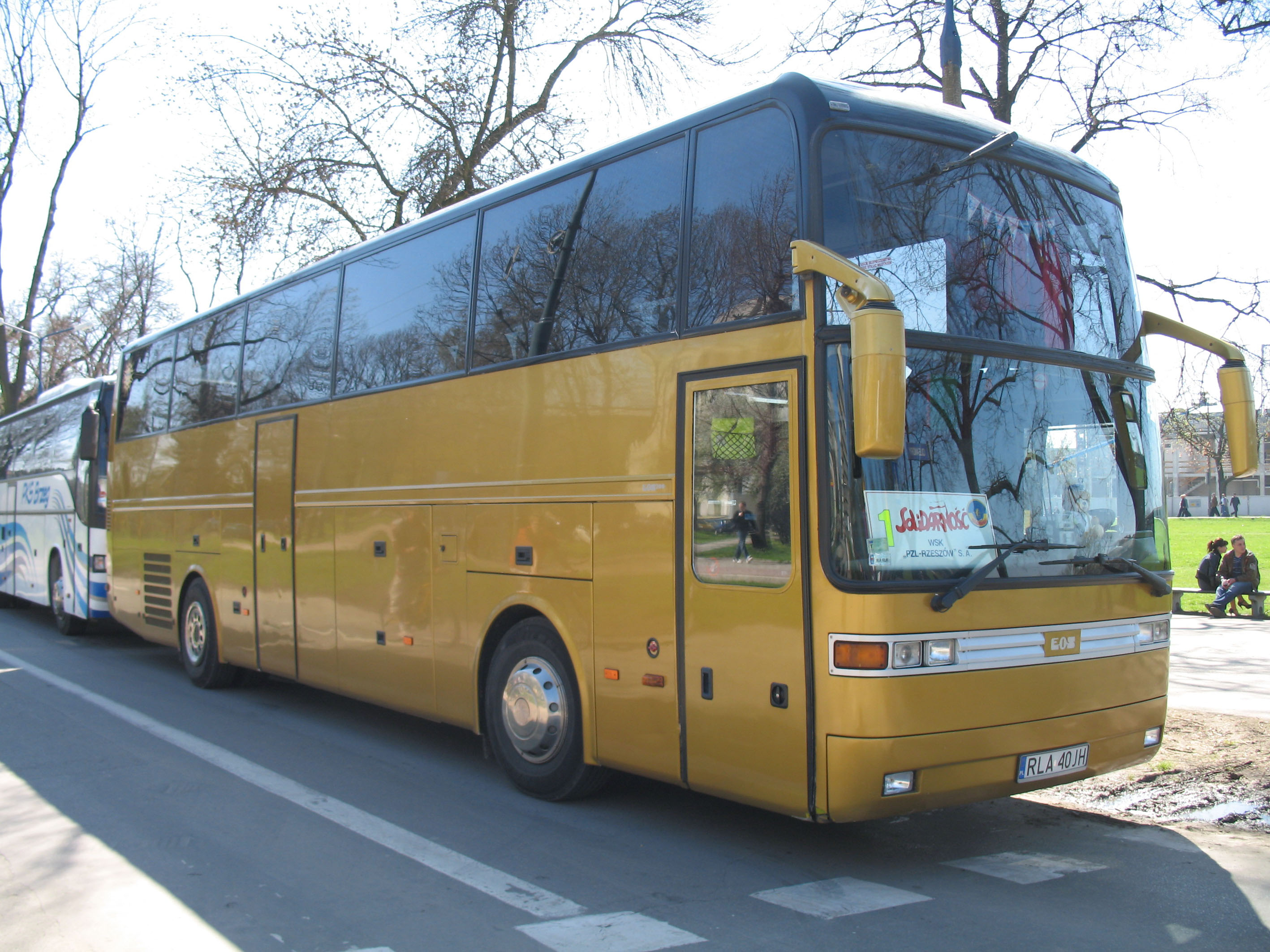 EOS 200 coach in Kraków, Poland. Podolec Łańcut operator.